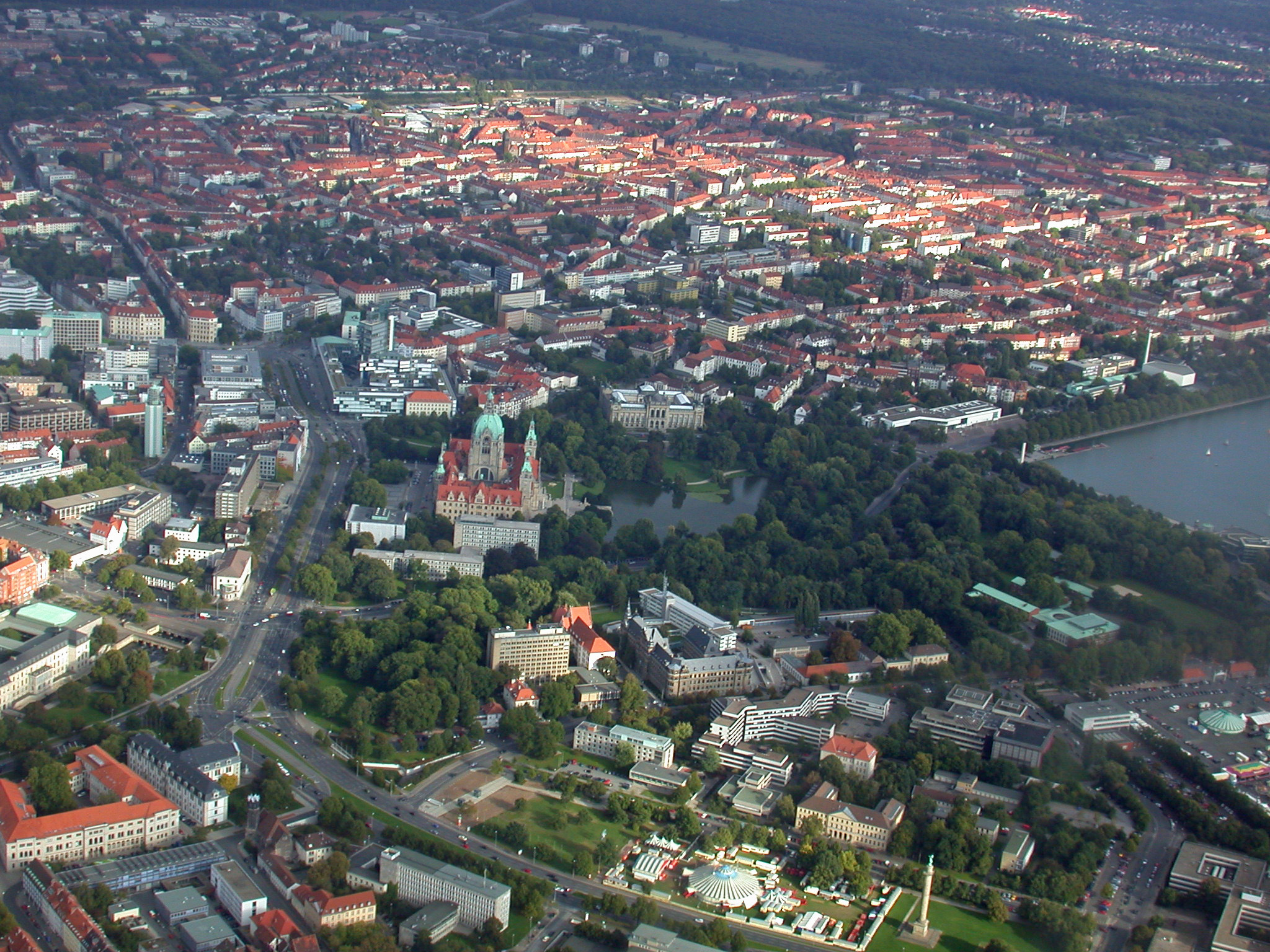 Aerial view of Hannover (city hall and neighborhood)